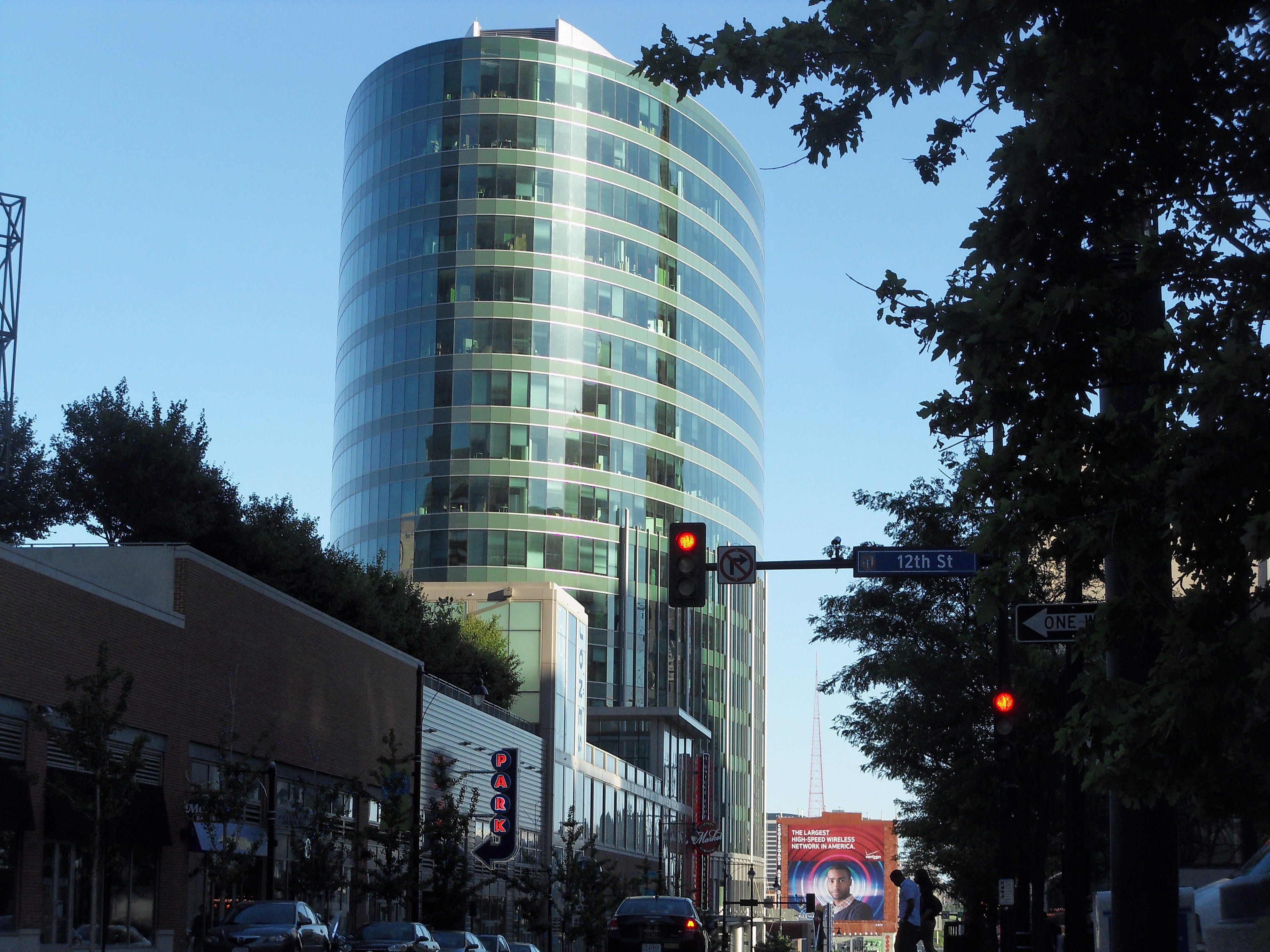 H&R Block World HQ and part of the Power & Light District